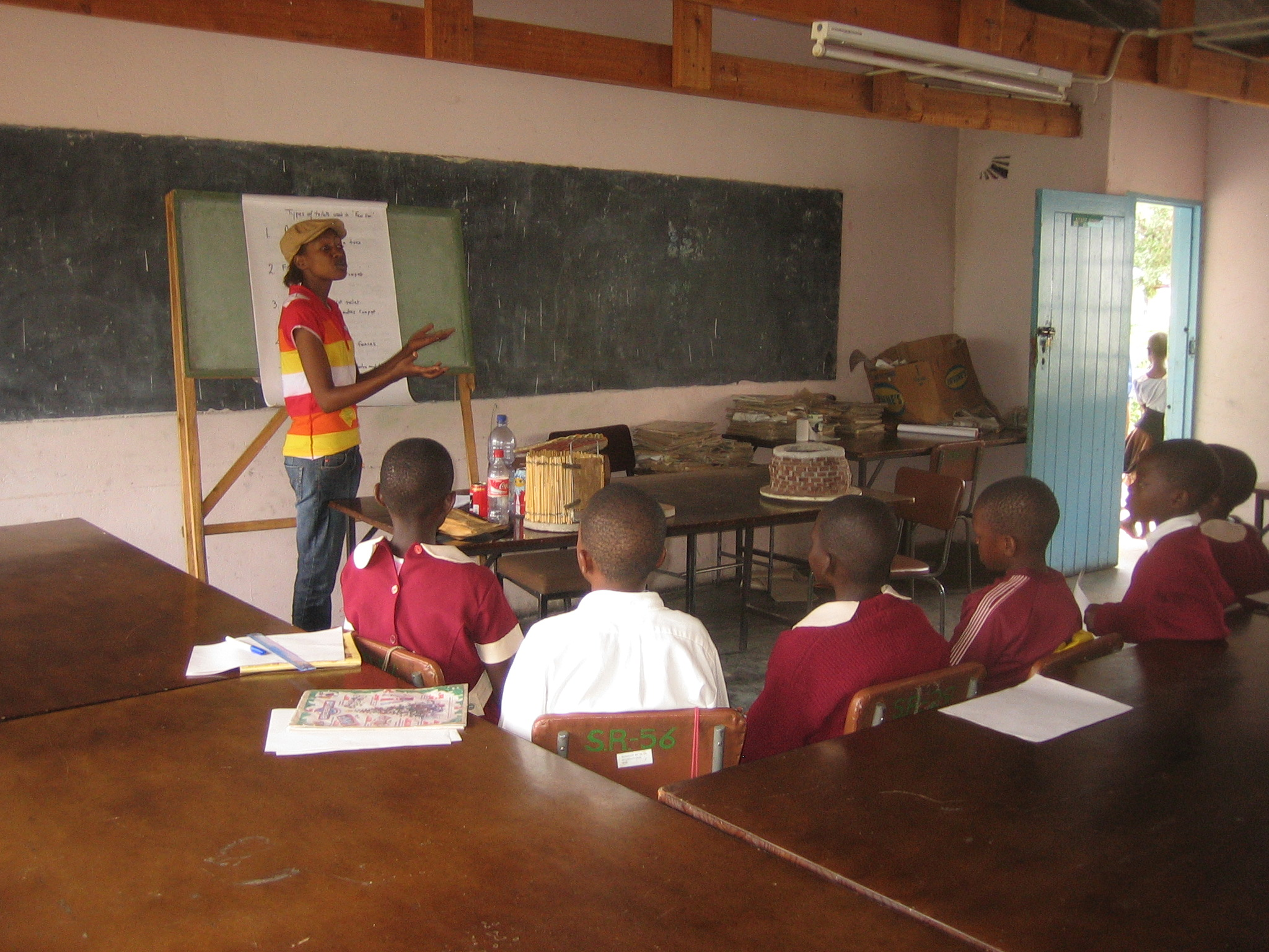 Chisungu School. The schools training starts off in the classroom. Teaching by Annie Shangwa. Photo by: Peter Morgan in Jan. 2008, Epworth-Zimbabwe.